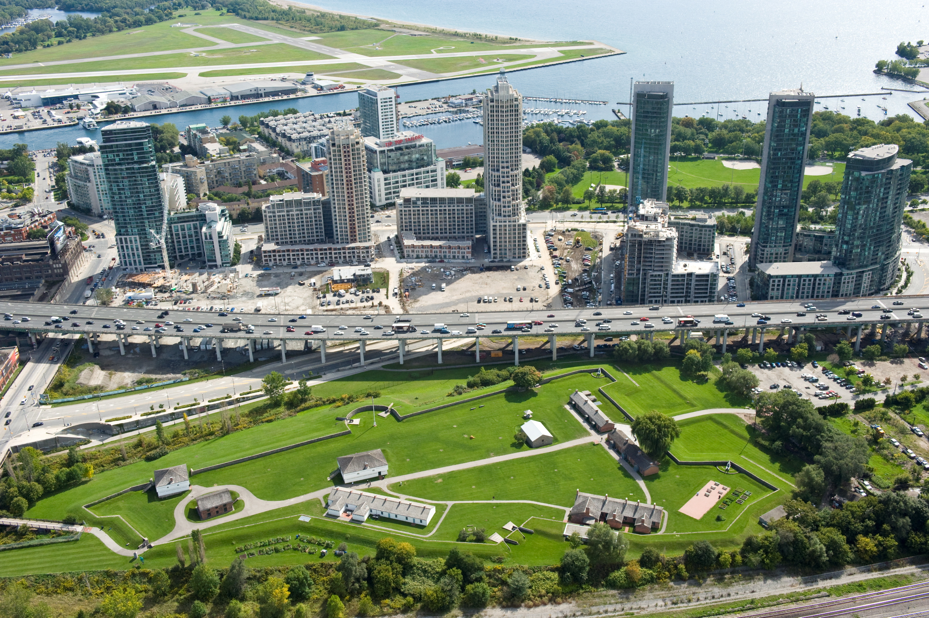 Looking south over Fort York, the Gardiner Expressway and the Toronto Island Airport.